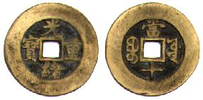 31 mm Obv.: Kuang Hsu Chung Pao Rev.: Top: Tang - "Equal To" Bottom: Shih - "10" Right: Manchu Yuwan - The Board of Public Works mint, Peking Left: Manchu Boo - coin Rarity: Ref.: [WC] 2-17 This coin has a thicker rim and is slightly larger overall than the first coin. Dynasty: Ch'ing (1644 - 1911 a.d.) Emperor: Te Tsung (1875-1908 a.d.) Reign Title: Kuang Hsu (1875-1908 a.d.)